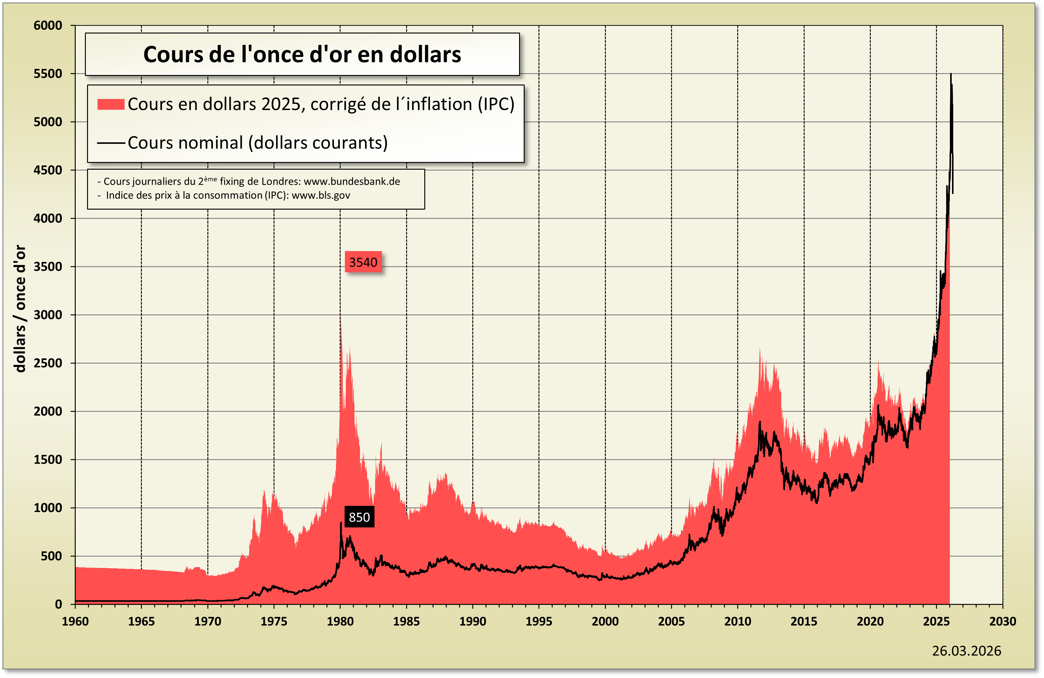 Historical gold price in USD and inflation adjusted gold price in USD